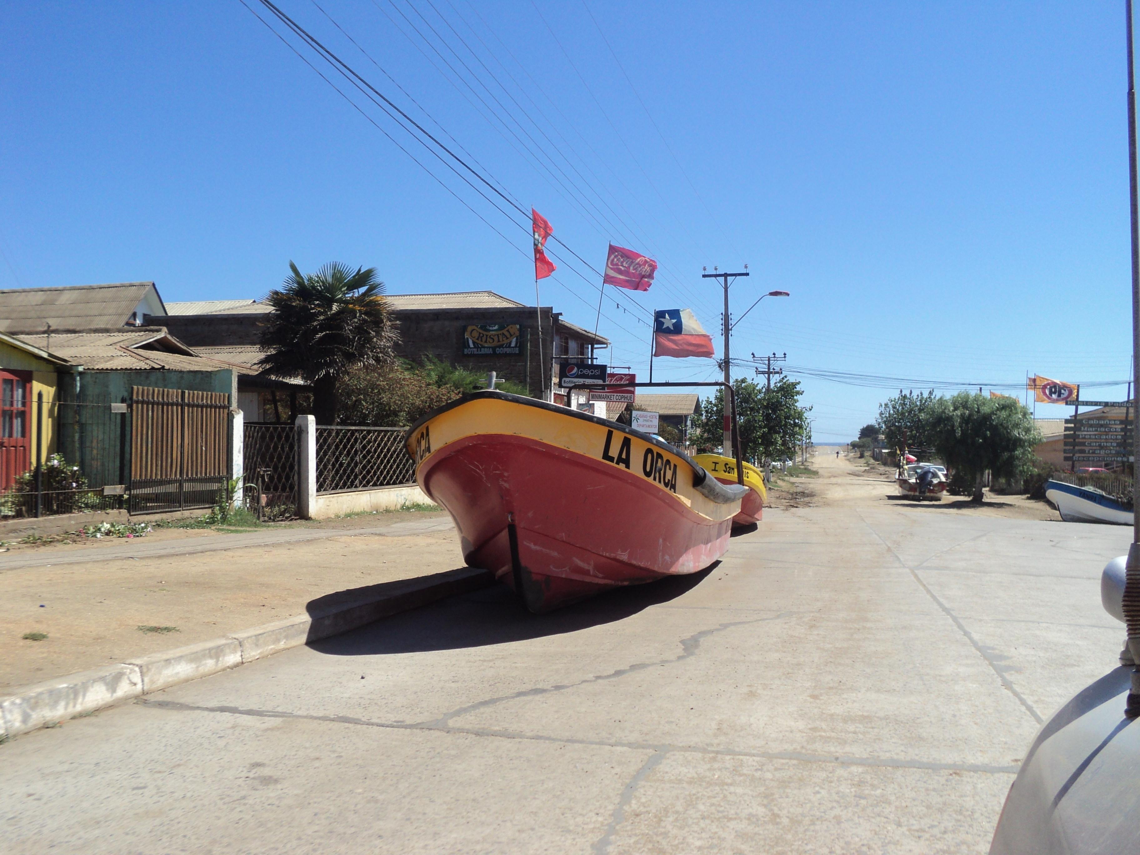 All of the fishing boats of Pichilemu were taken to higher ground after a tsunami warning on March 11, 2011. The boat pictured, La Orca, is in Agustín Ross Avenue.